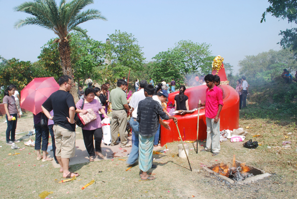 Chinese New Year celebration at Achew's Grave, Achipur